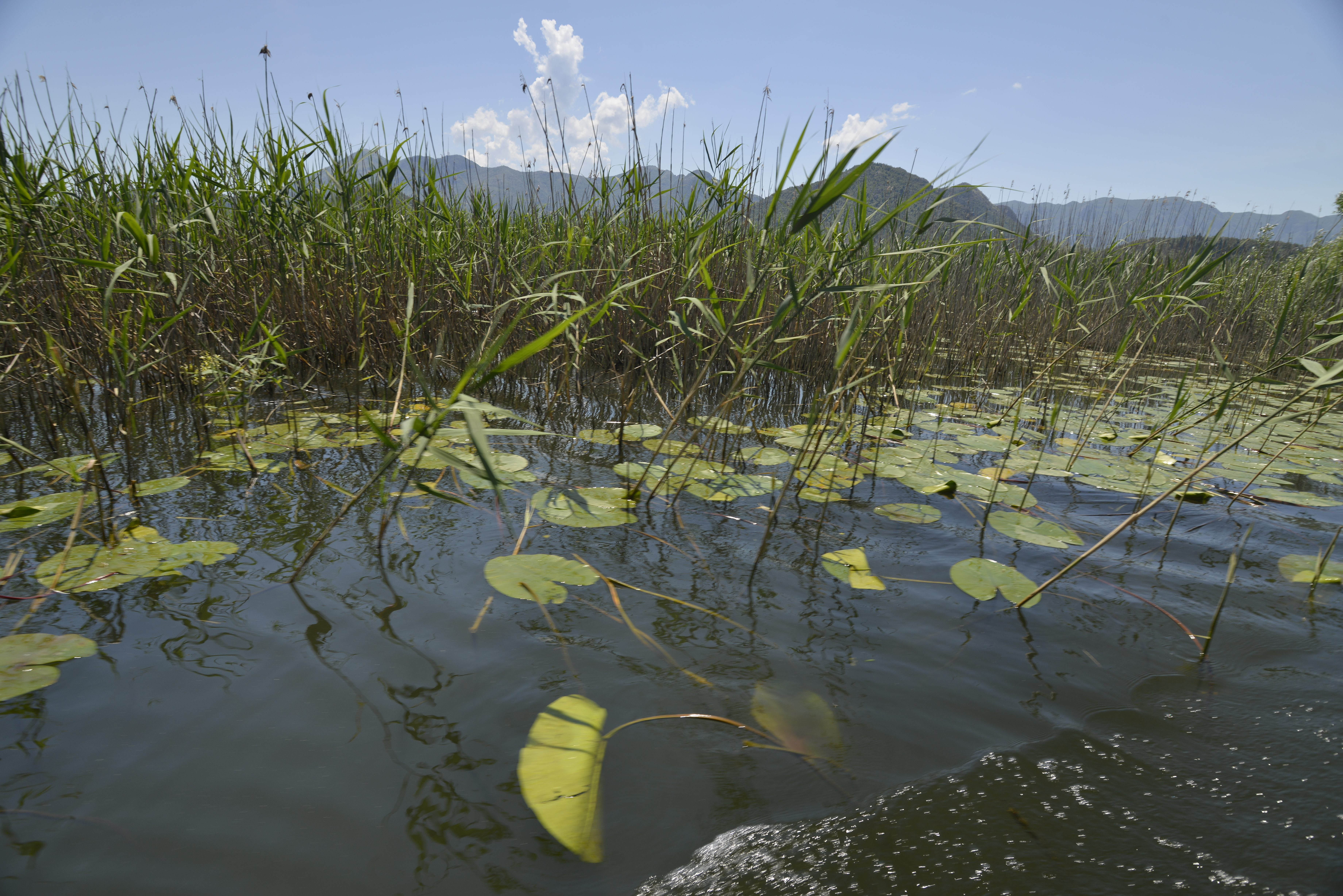 Skadar Lake, Montenegro